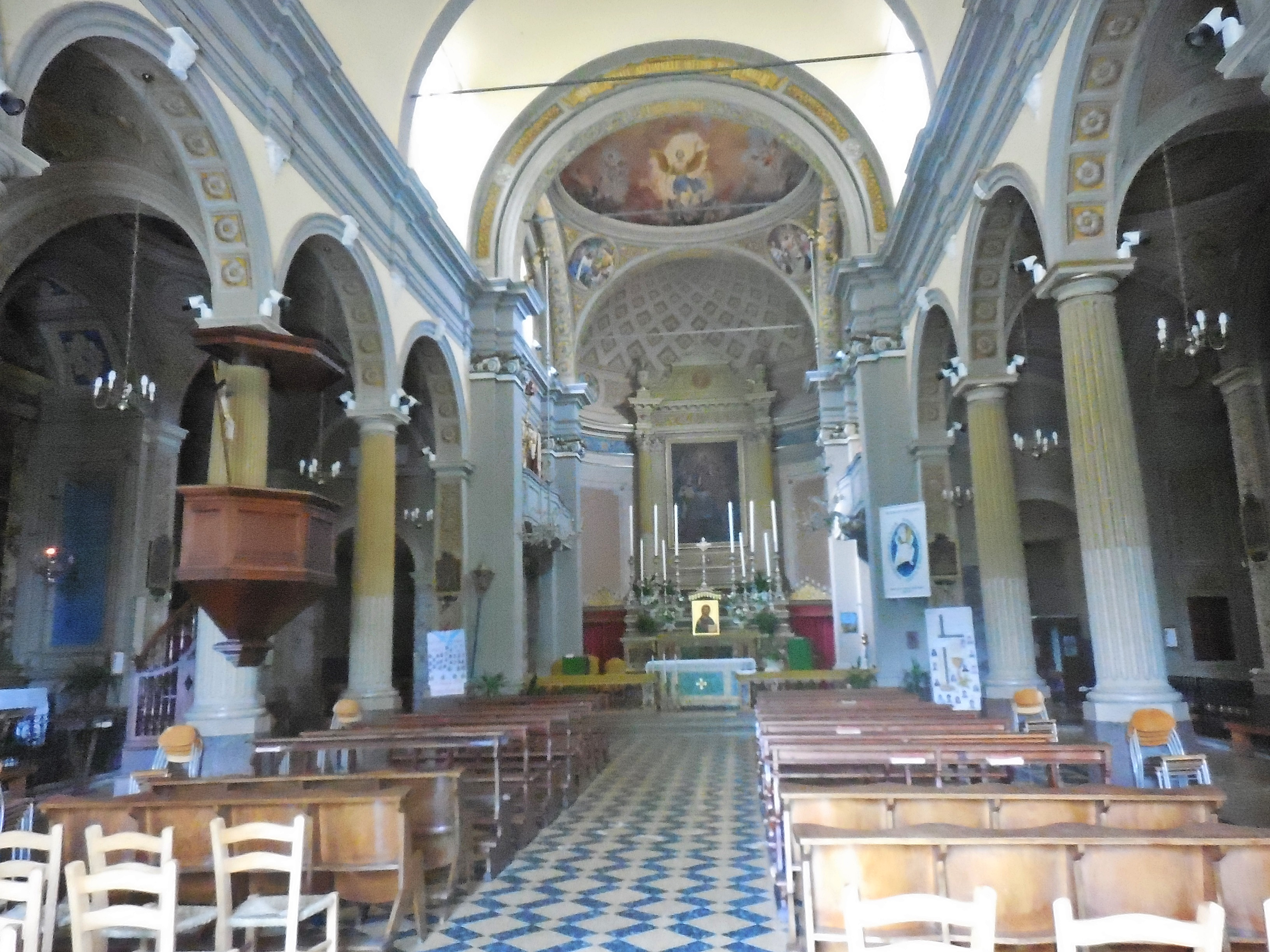 SS Michael & Nazarius (Gaggio Montano)